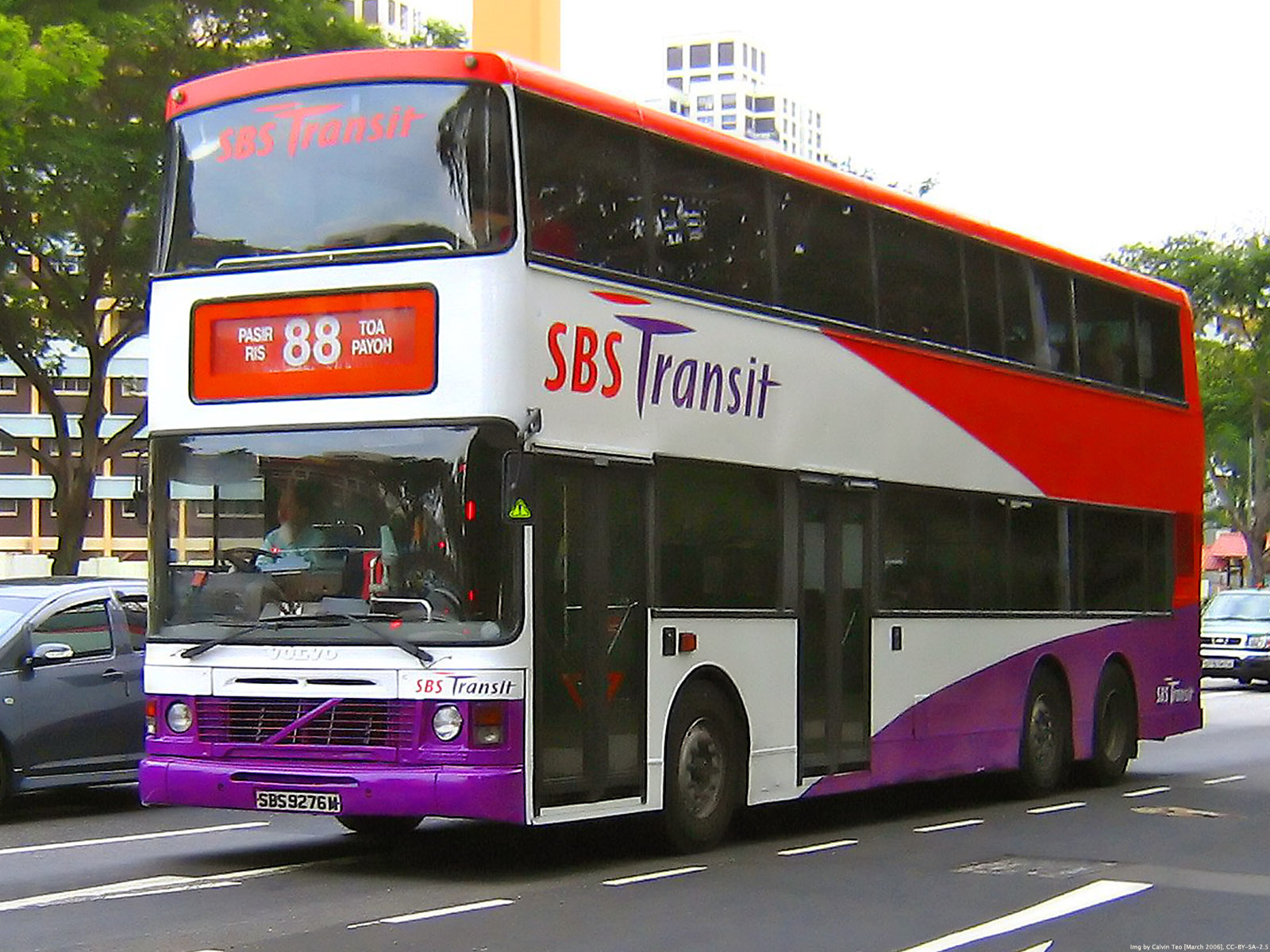 An SBS Transit Volvo Olympian (SBS9276M) on Service 88 Bishan Rd, Bishan, Singapore